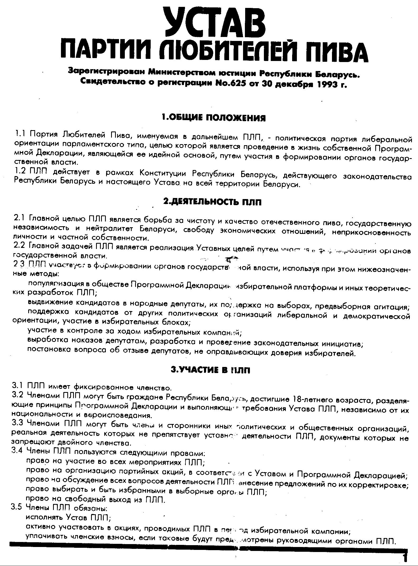 scan of the first page of the Statute of the Beer Lovers Party. Scanned by Mikkalai 19:12, 4 September 2006 (UTC)Беларуская (тарашкевіца): Першая старонка статуту партыі аматараў піва (Беларусь)